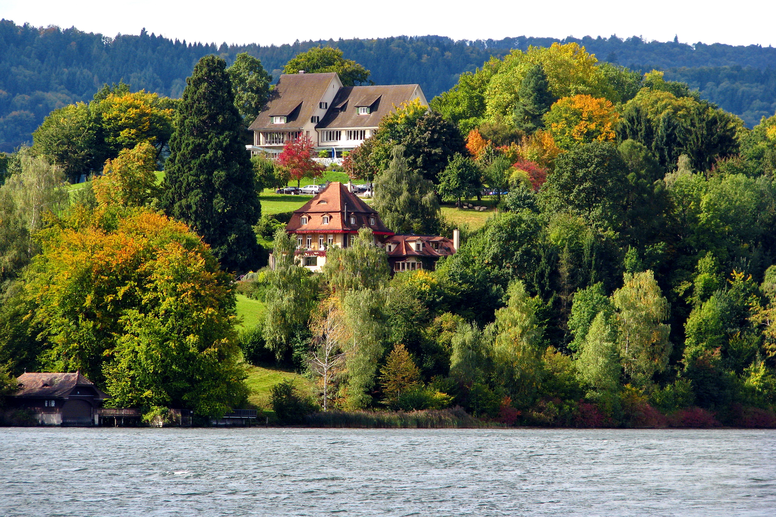 Lake Zürich : Au peninsula at Au between Wädenswil and Horgen.